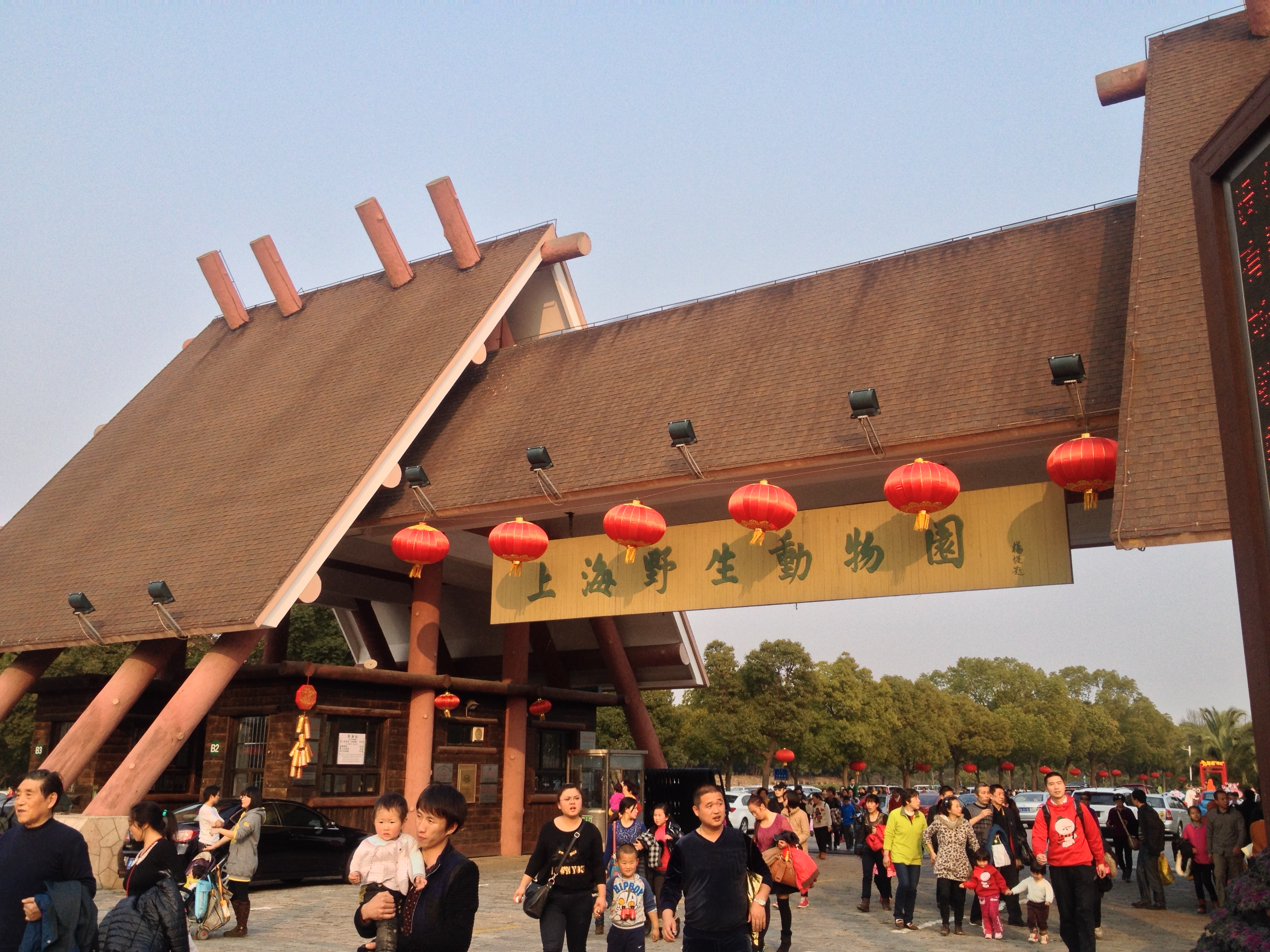 The main entrance gate of Shanghai Wild Animal Park(Zoo)